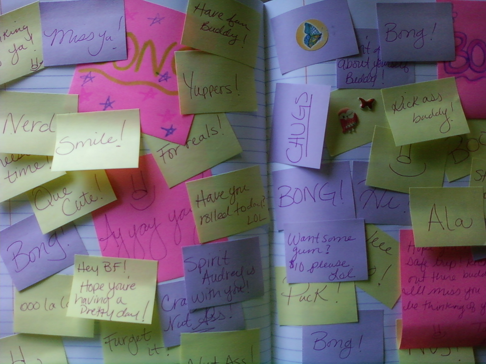 Notebook filled with colorful notes featuring inside jokes.